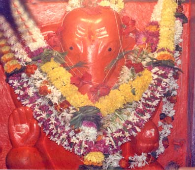 I have personally Clicked the photo on my trip to Alibag